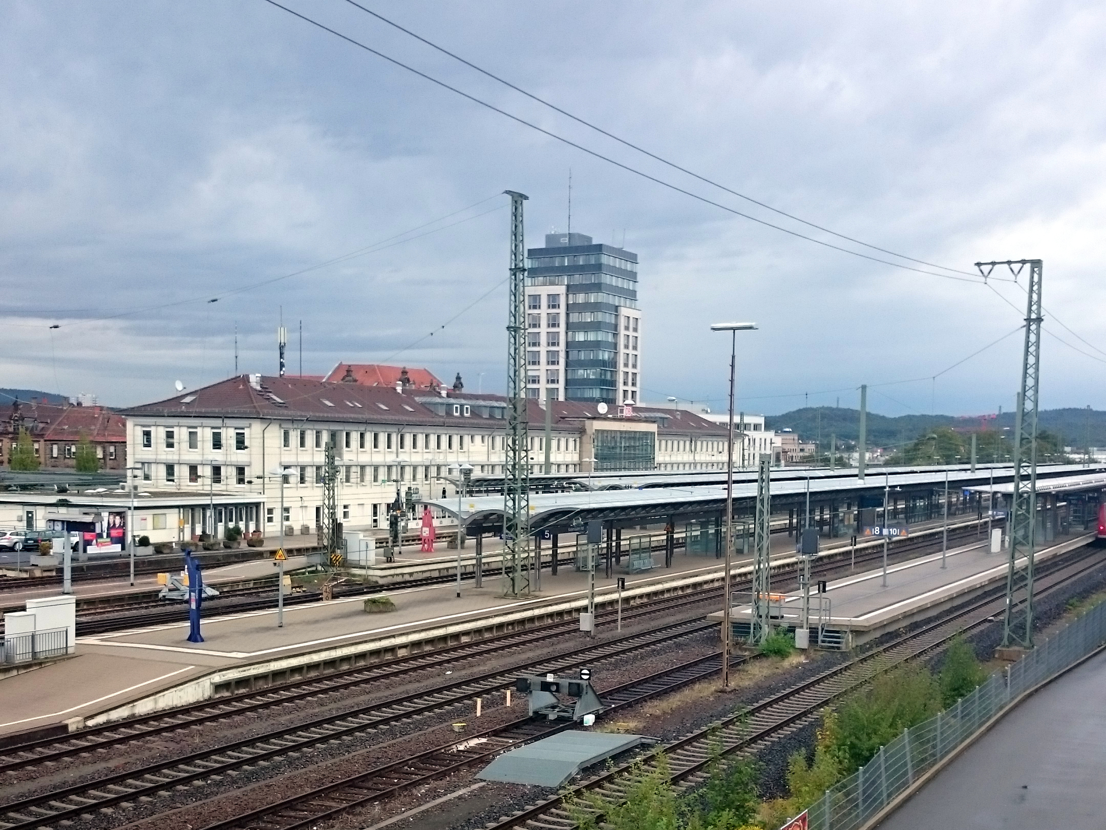 location of the courts building of Kaiserslautern behind Kaiserslautern main station